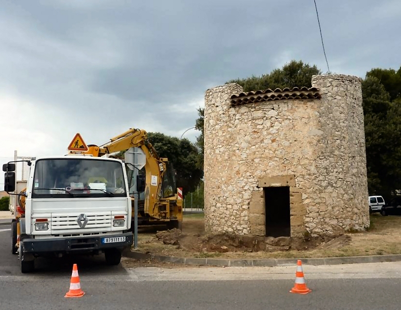 disbursement around the windmill to prepare the installation of scaffolding